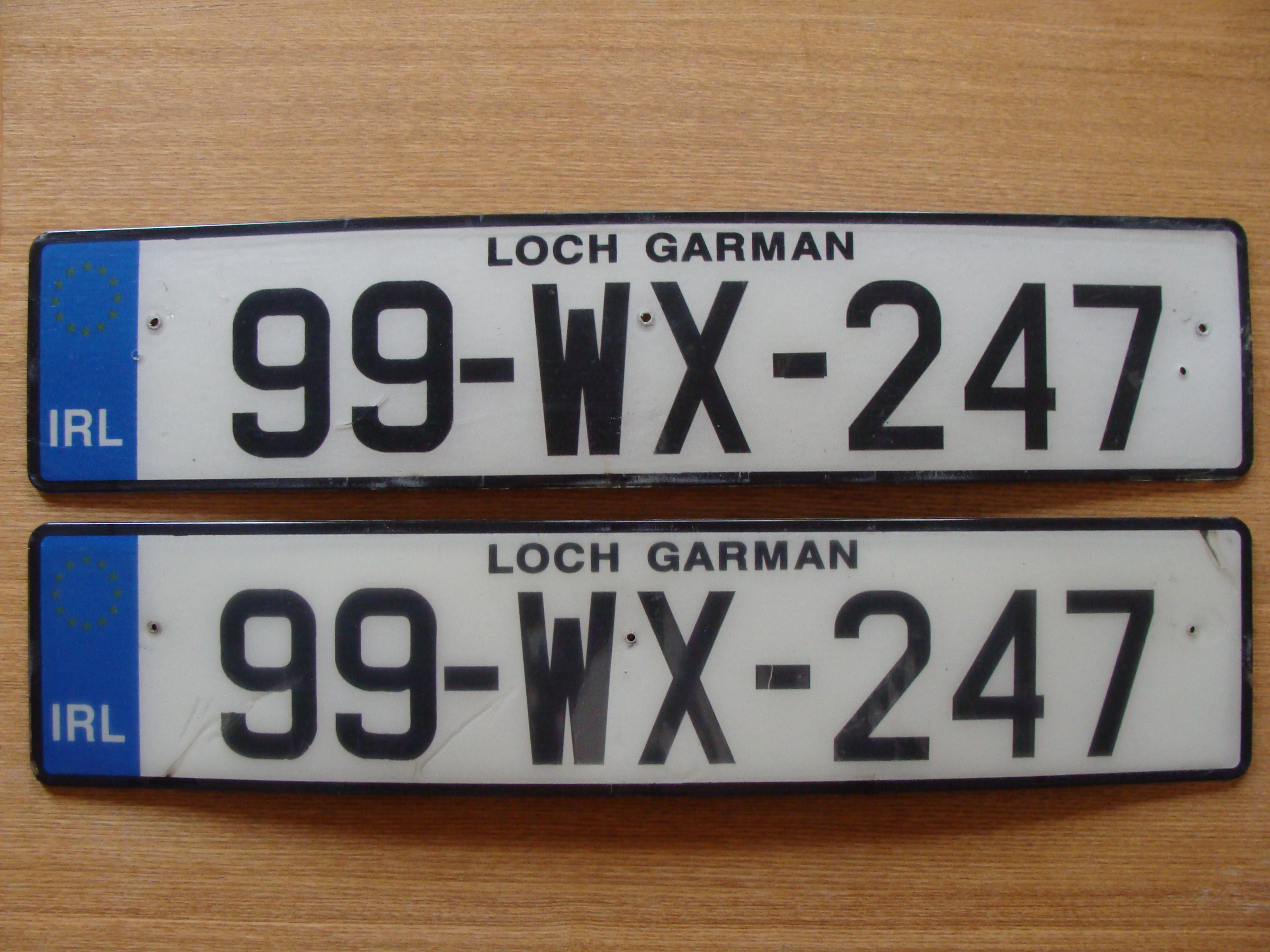 Irish registration plates